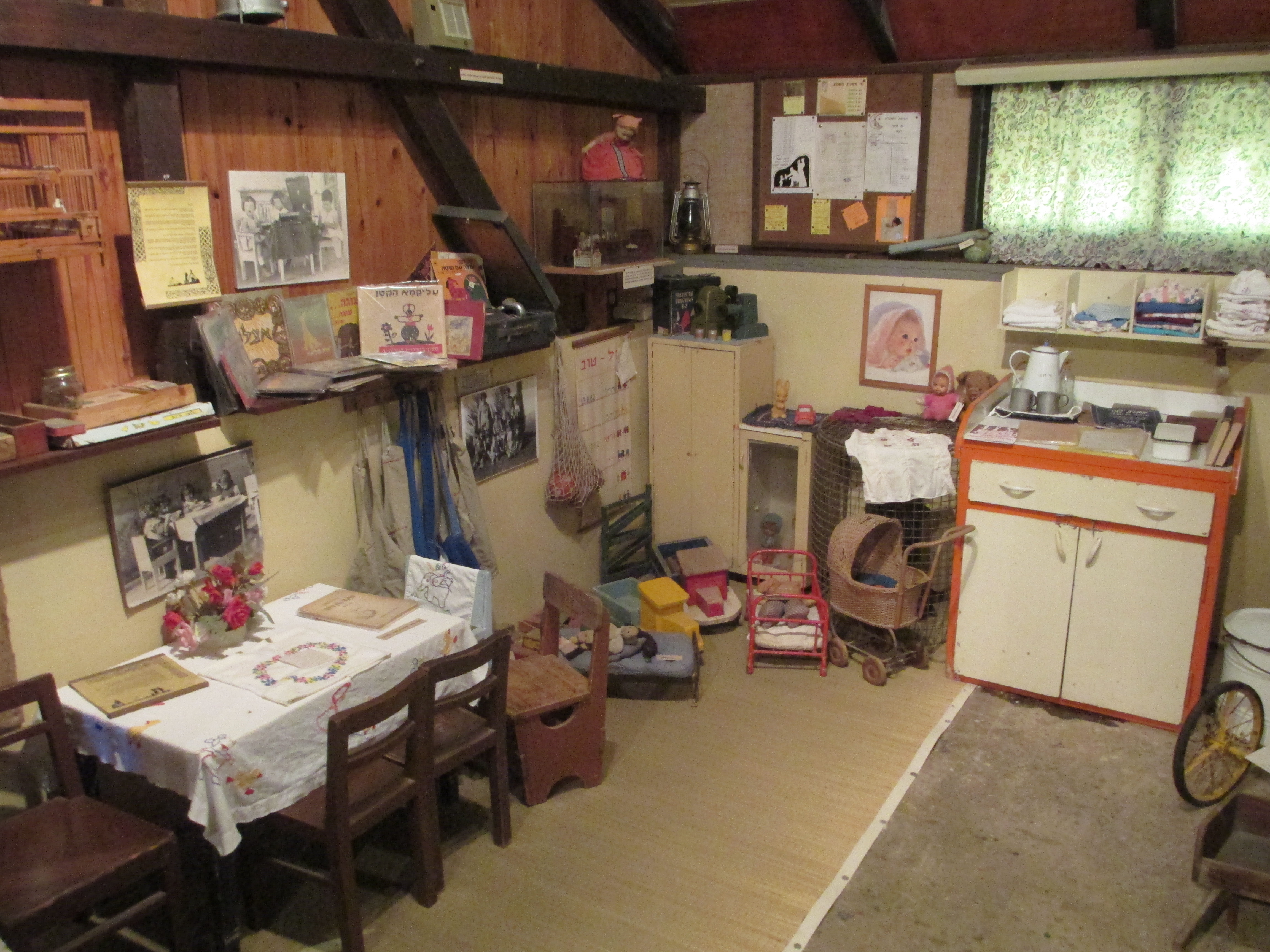 מוזיאון מזרע הקטנה - חדר ילדים